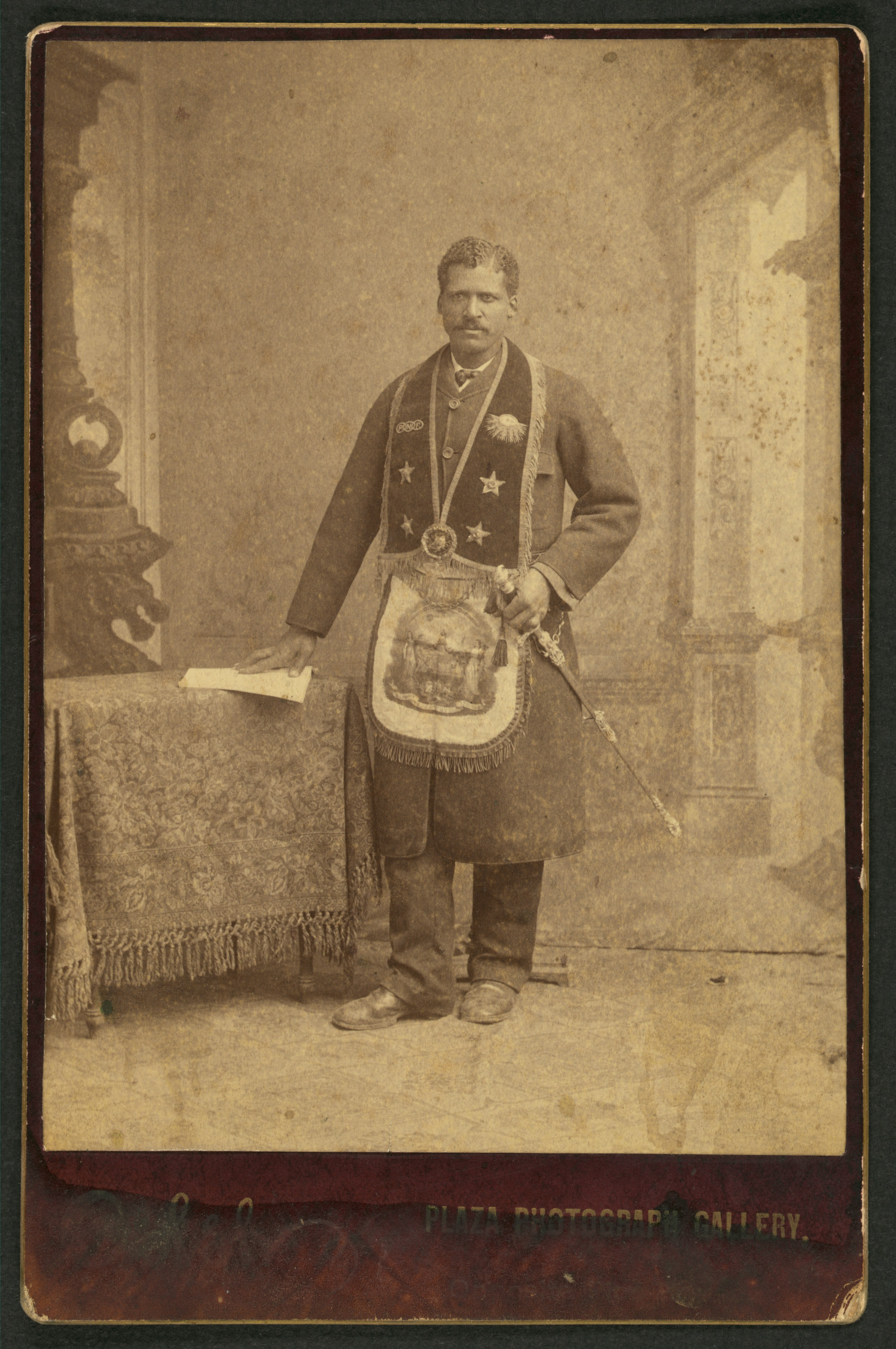 Title: African American man, member of the Grand United Order of Odd Fellows, wearing fraternal order collar and apron] / A.C. Golsh, 411 Main St., opp. Pico House, Los Angeles, Cal Abstract/medium: 1 photographic print on cabinet card ; 16.5 x 11 cm.